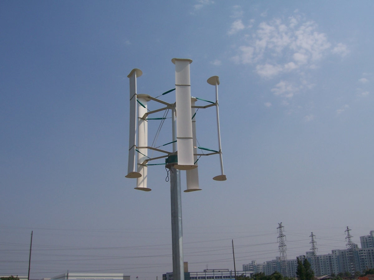 The H type vertical axis wind turbine